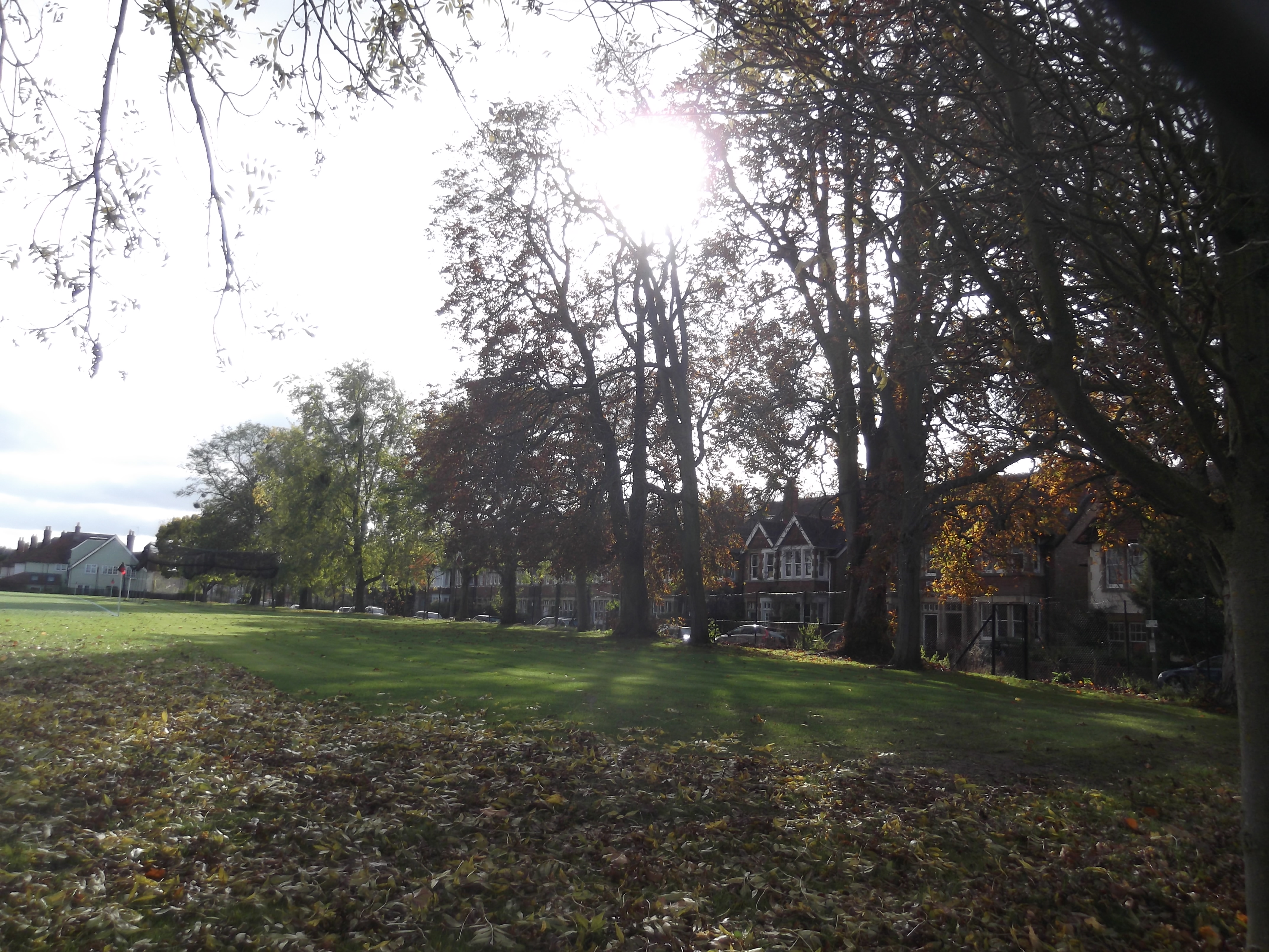 St John's College playing field and residential street (Bainton Road) in north Oxford, England.